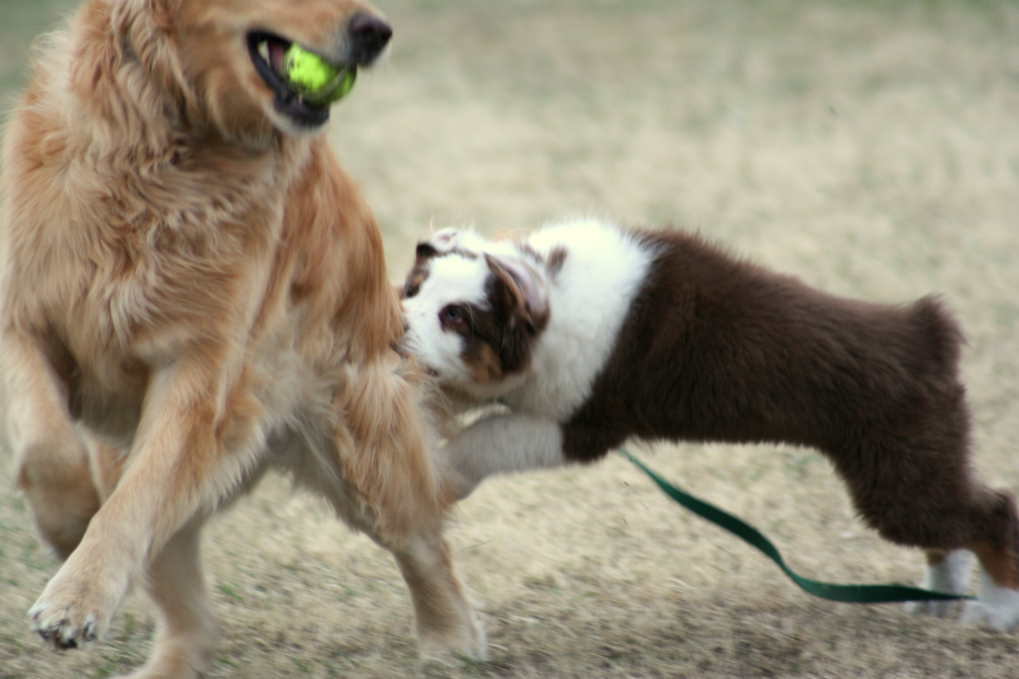 A 12-week-old red tricolor Aussie Puppy demonstrates early herding instincts on a Golden Retriever.